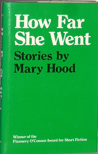 Cover of the 1984 edition of How Far She Went